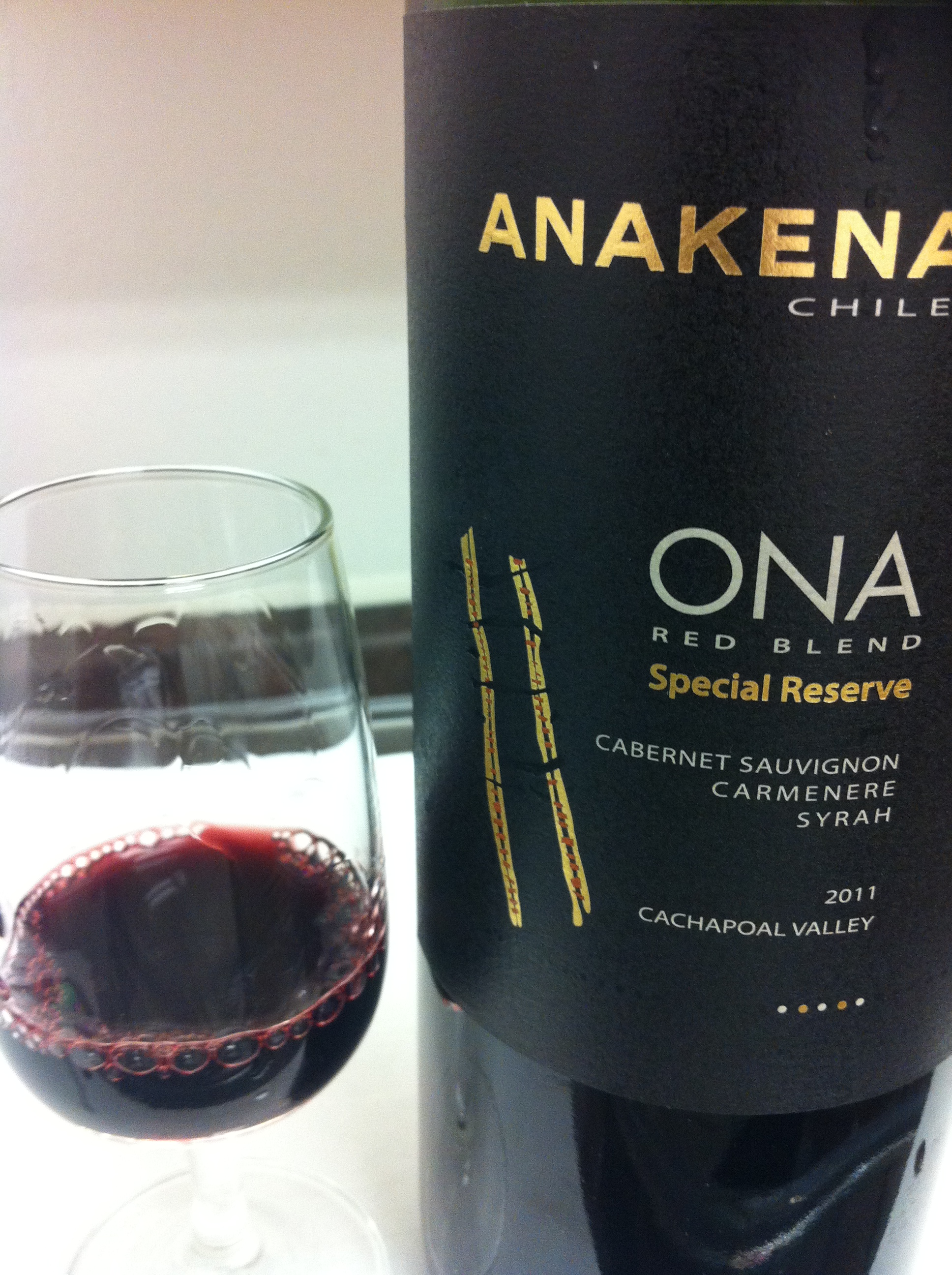 Cabernet Sauvignon, Carmenere and Syrah wine from the cachapoal valley of chile